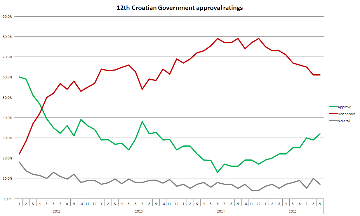 Approval ratings of the 12th Croatian Government, led by Prime Minister Zoran Milanović